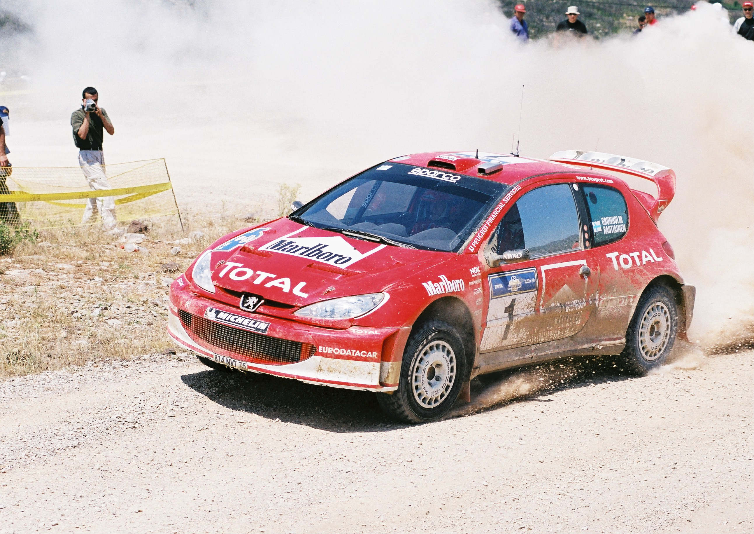 1 M. Gronholm and T. Rautiainen in 2003 Acropolis Rally (S.S. ?)